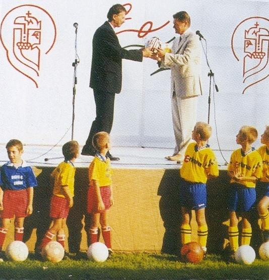 Reconstruction celebration of stadium in 2002.